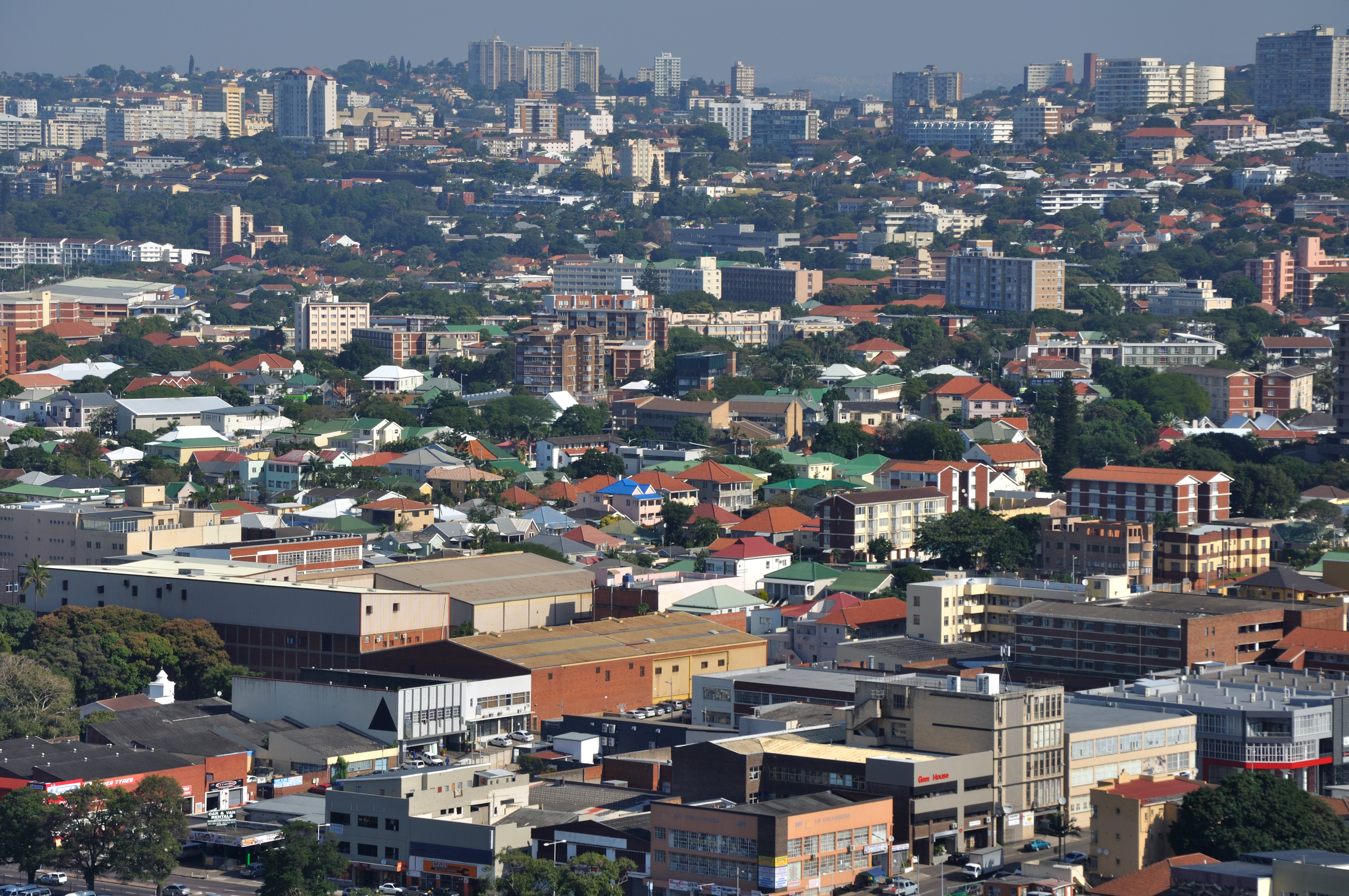 South Africa, view from the top of Moses Mabhida Stadion